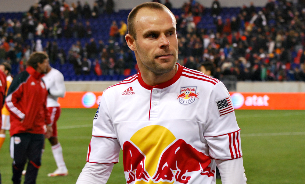 Estonian professional footballer Joel Lindpere. Photo: Saturday, March 19, 2011.